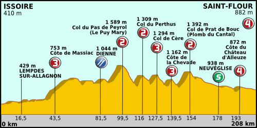 Profil of the 9th stage of the Tour de France 2011